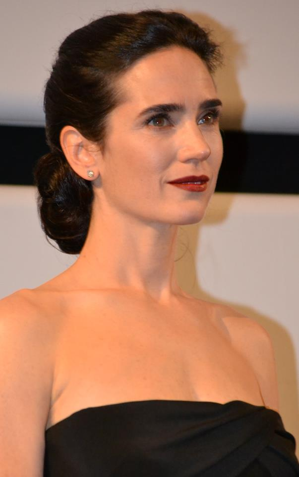 Jennifer Connelly at the screening of the restored version of "Once upon a time in America" at the Cannes Film Festival